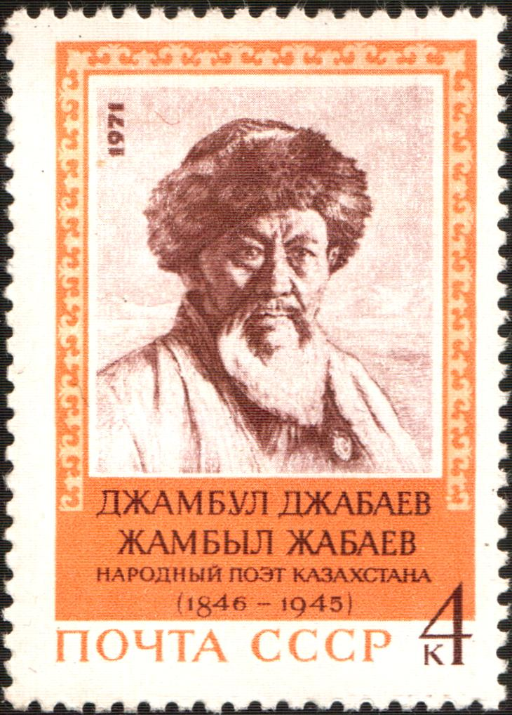 USSR stamps: Jambyl Jabayev (after Anatoly Yar-Kravchenko). Seriesː 125th Anniversary of Jambyl Jabayev (1846-1845), Kazakh Poet-aqyn